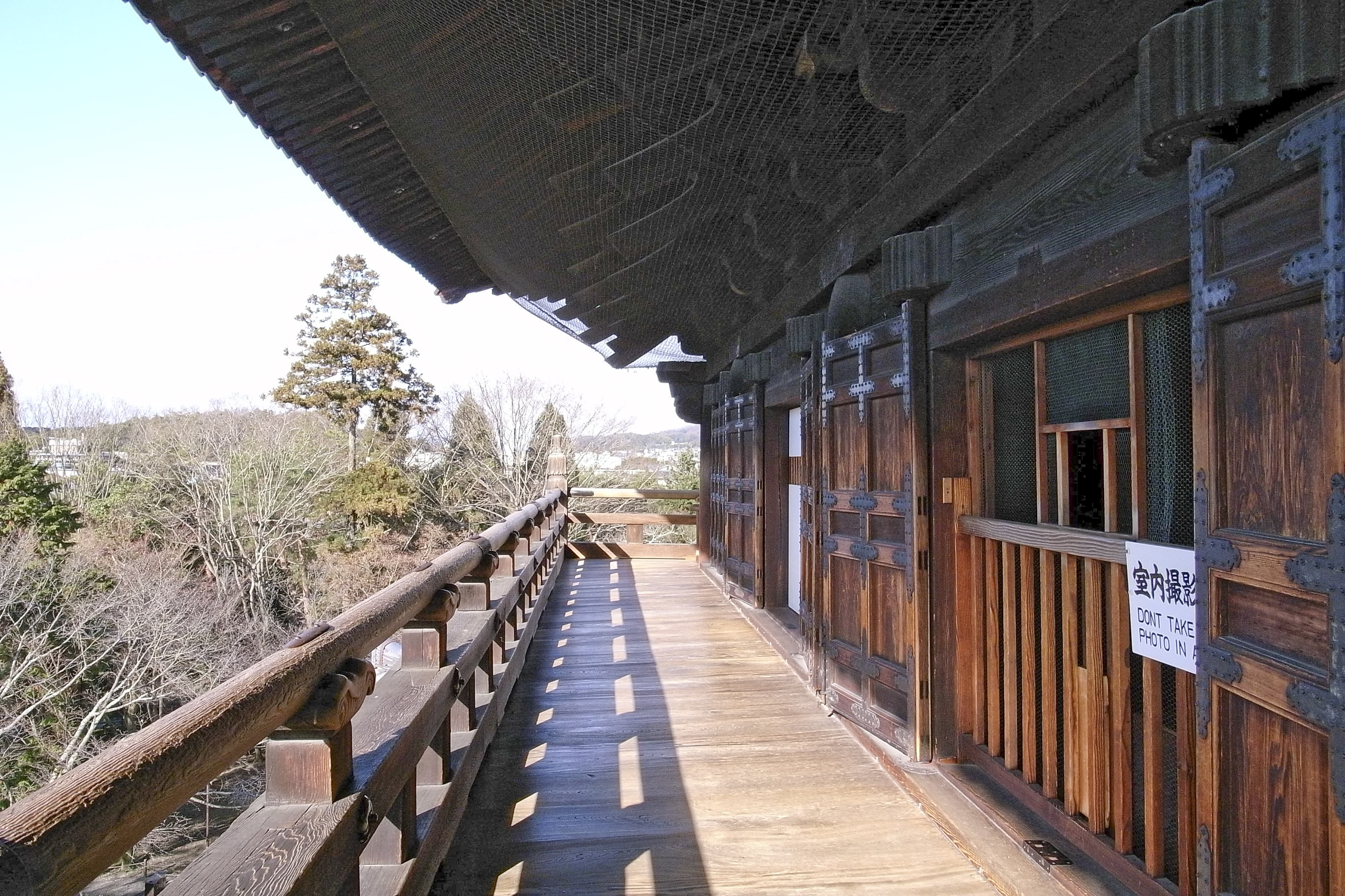 Nanzenji Sanmon in Sakyo, Kyoto, Japan.